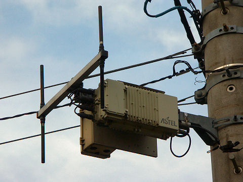 アステルPHS基地局 撮影日：2006年 7月10日 撮影地：（神奈川県川崎市中原区小杉陣屋町） 撮影者：cory Base station of Personal Handy-phone System by ASTEL Tokyo, Japan. (This Base station is scrapped.) Date: 2006-07-10 (Jul 10, 2006) Place: Kosugi-Jinya-cho Nakahara Kawasaki Kanagawa, Japan. Author: ISAKA Yoji (cory)